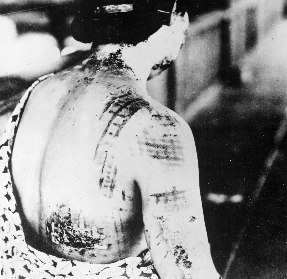 This is a victim of an atomic bomb. Original caption: "The patient's skin is burned in a pattern corresponding to the dark portions of a kimono worn at the time of the explosion." : Page: License: Generally, materials produced by Federal agencies are in the public domain and may be reproduced without permission. However, not all materials appearing on this website are in the public domain. Some materials have been donated or obtained from individuals or organizations and may be subject to restrictions on use.